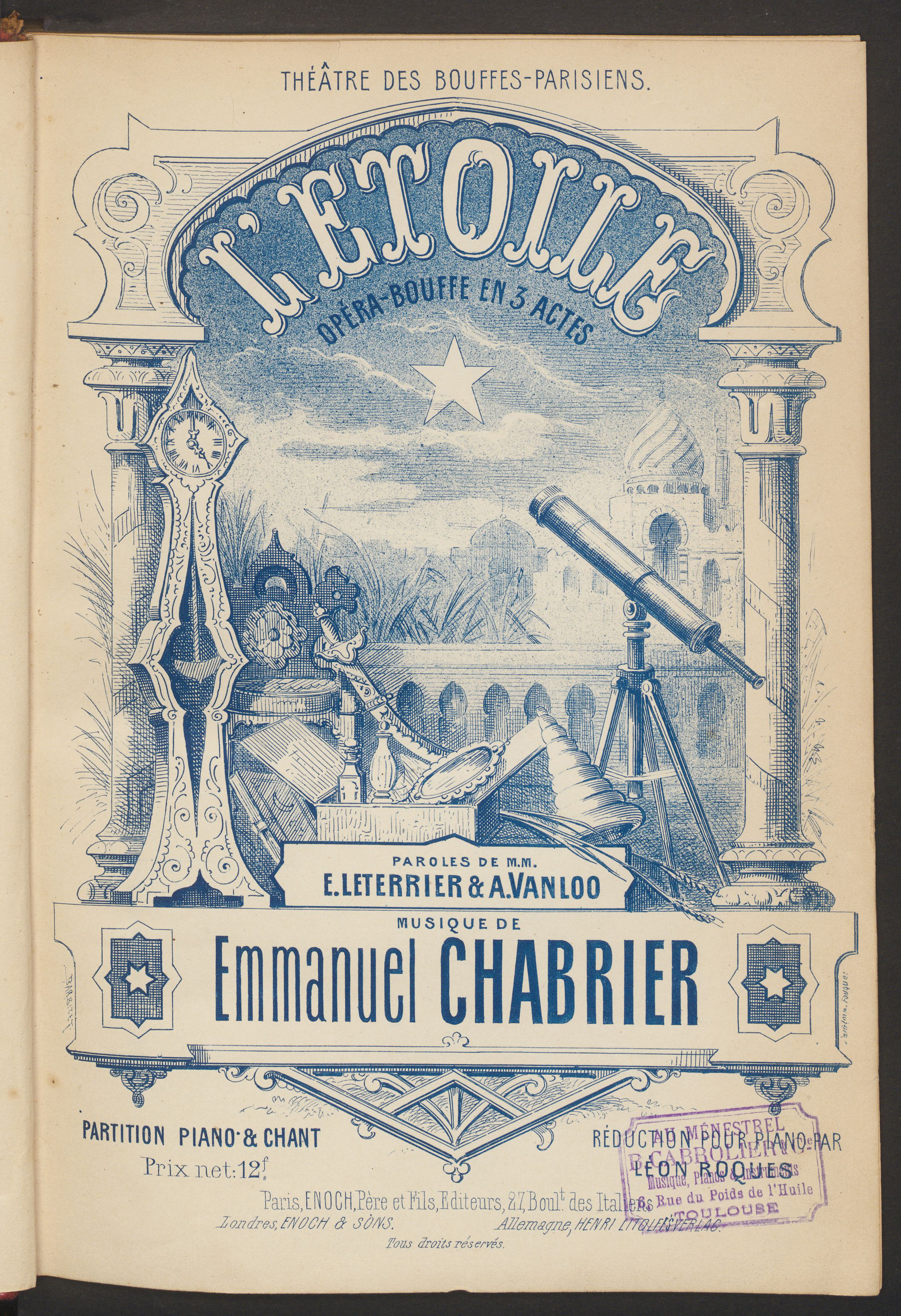 Cover to a 19th century edition of Emmanuel Chabrier's L'Etoile